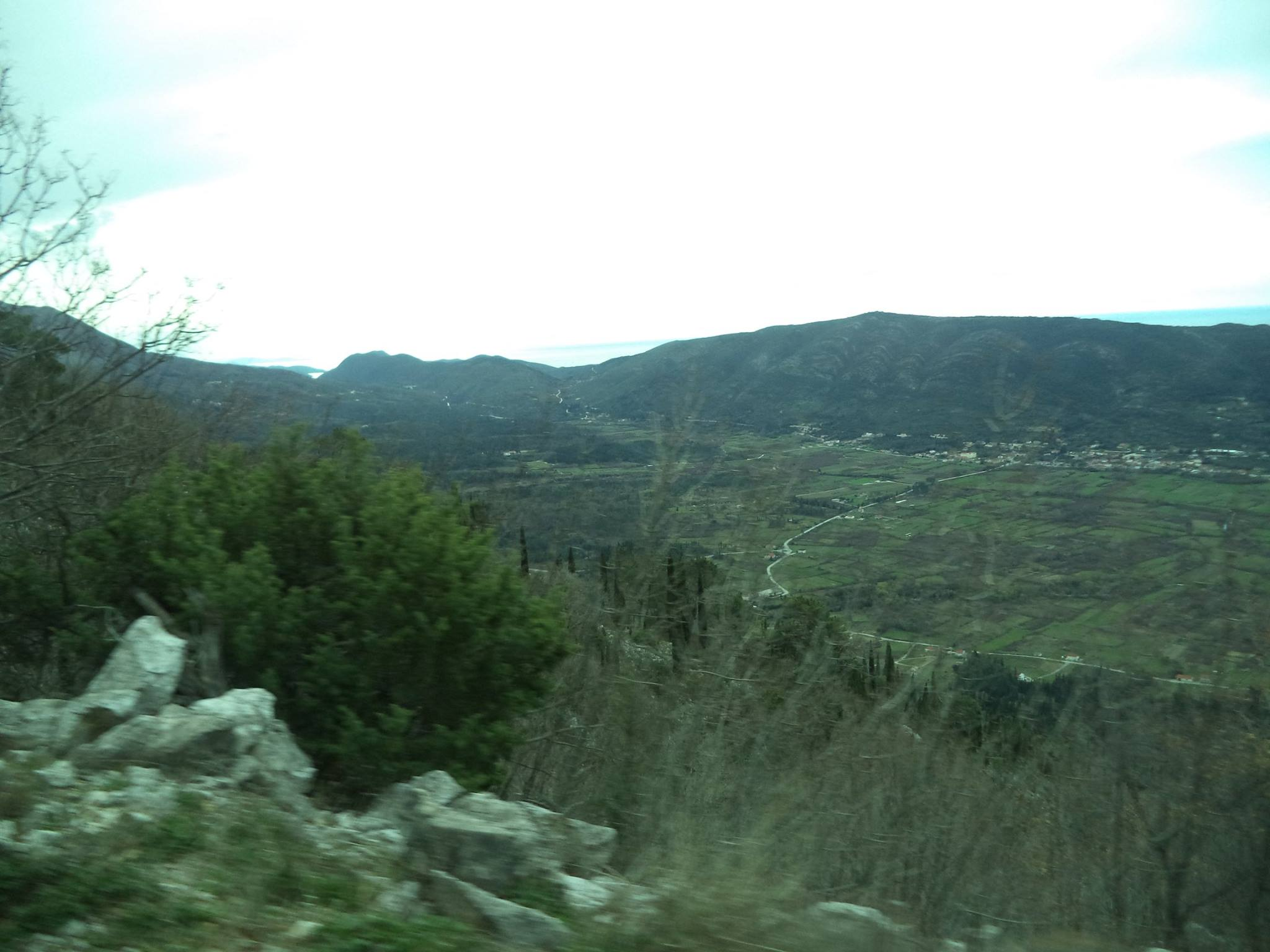 Konavle field